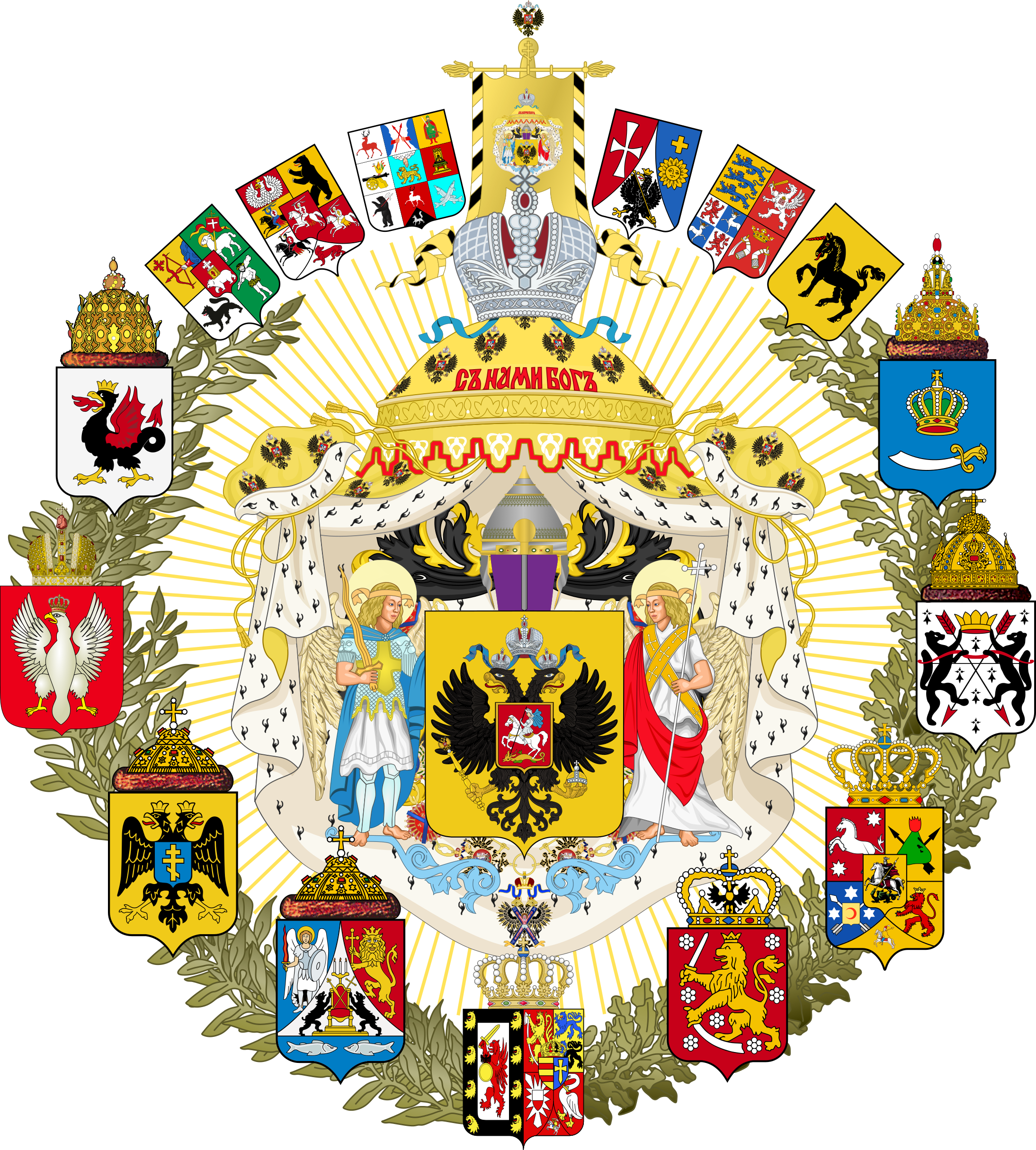 Full achievement